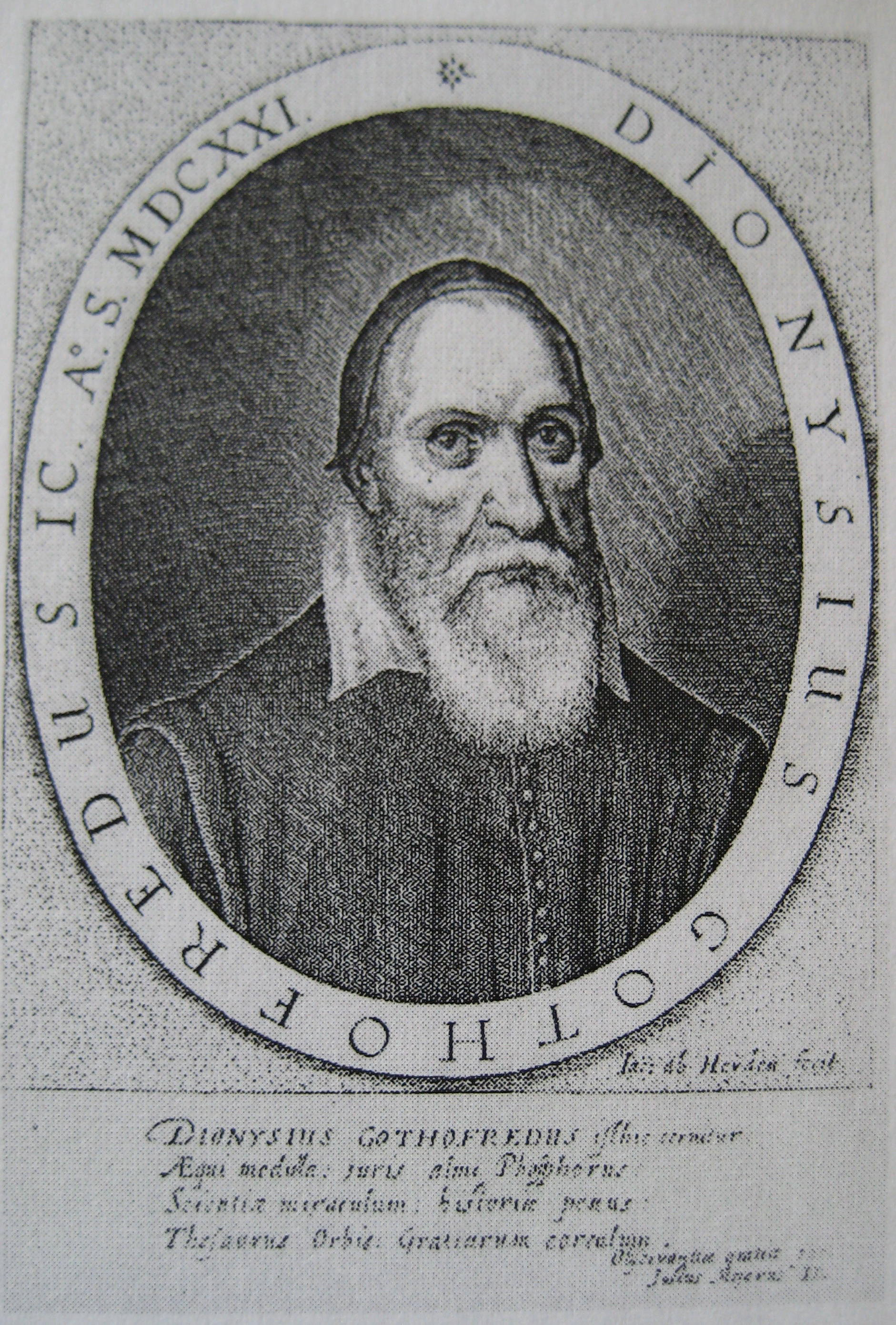 Dionysius Gothofredus alias Denis Godefroy